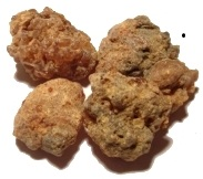 Author:en:User:Sjschen, Source: Self made; Somalian myrrh (Commiphora myrrha)